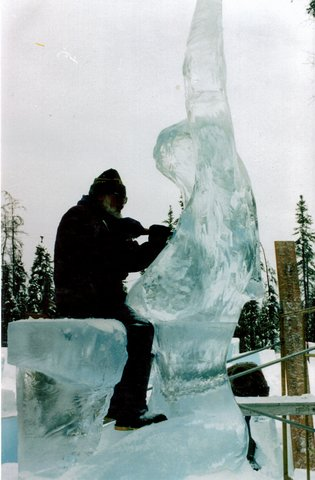 1 Abel Ramírez Águilar working on an ice sculpture called "Warm Sung" at the Ice Art 96 in Fairbanks, Alaska